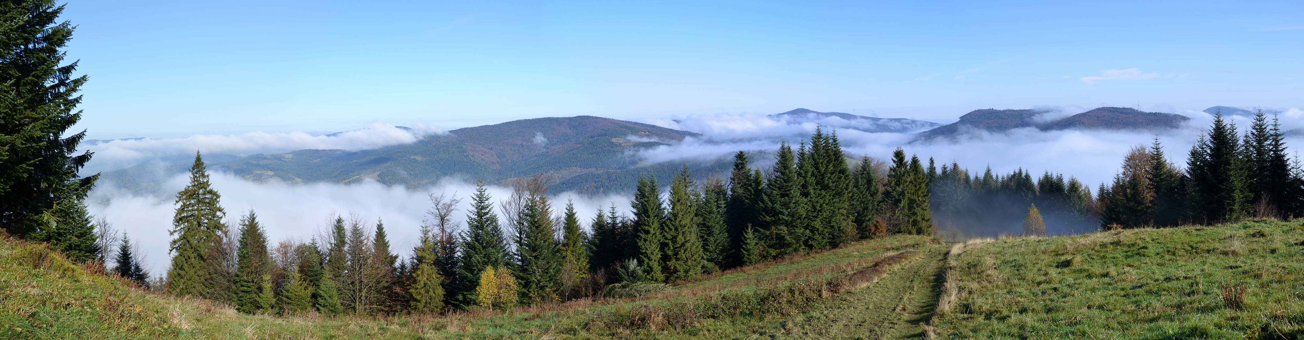 Panorama of the Gorce Mountains in the Island Beskids near Jaworzynka